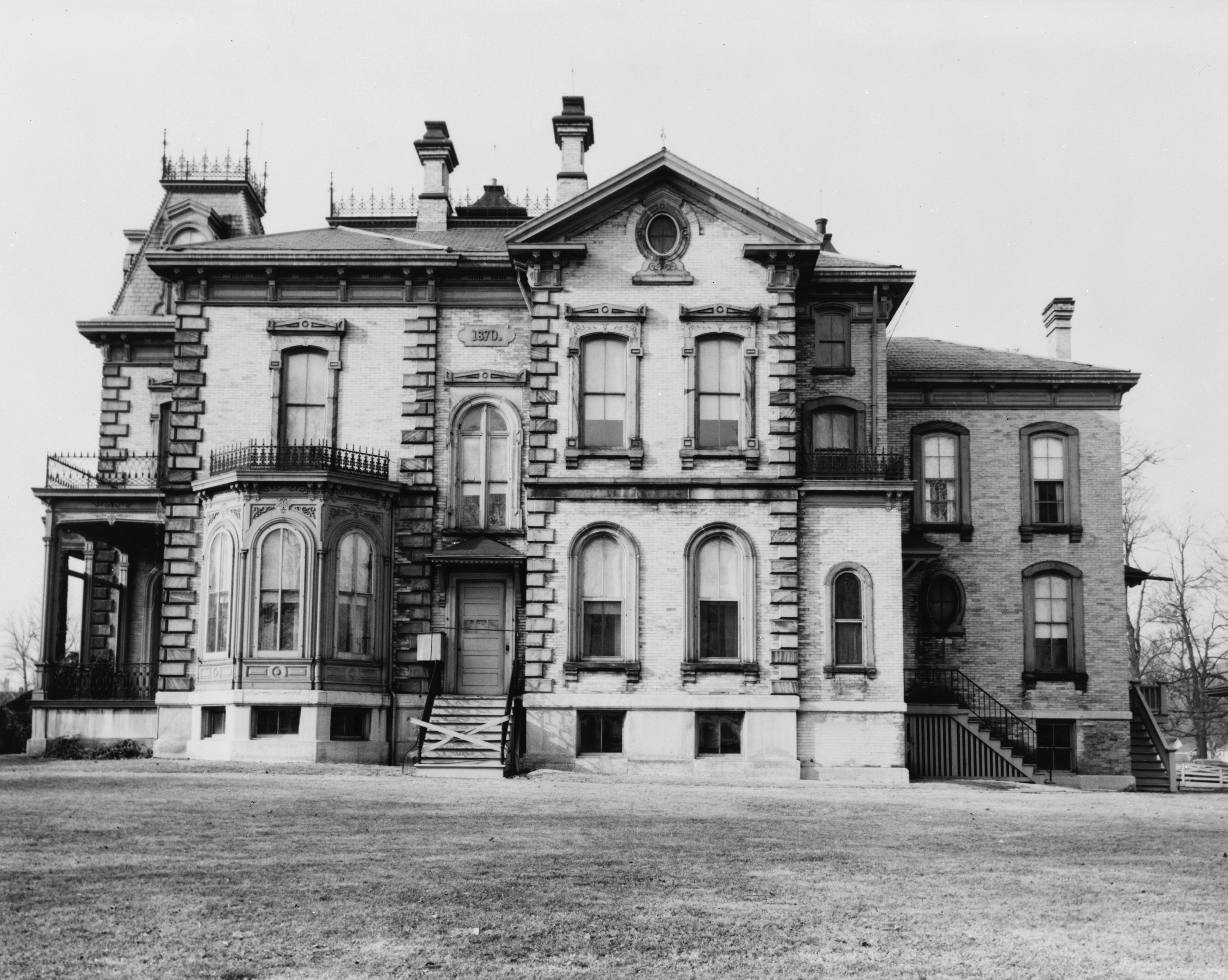 Home of David Davis, Supreme Court Justice